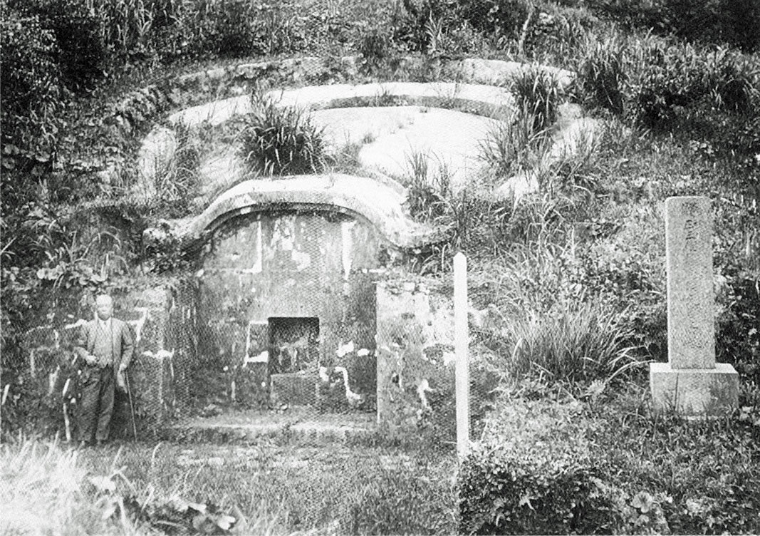 Tomb of Sai On, Gushichan Ueekata Bunjaku.